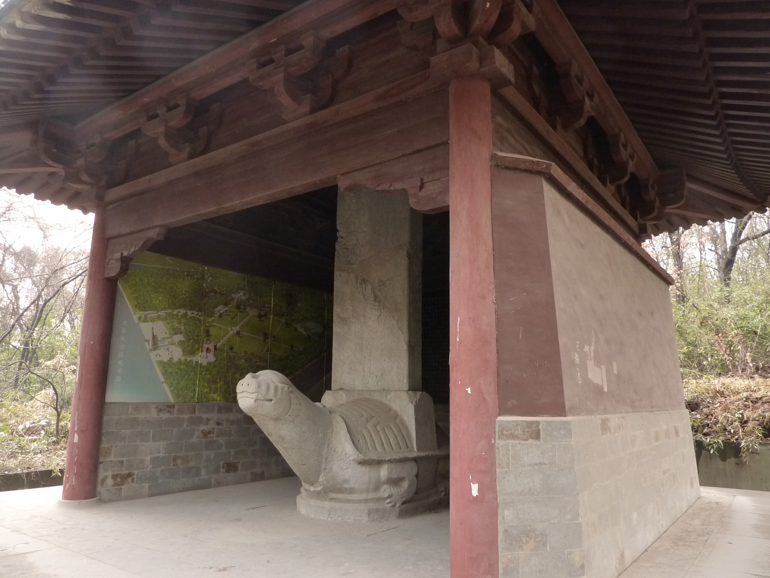 The restored stone tortoise (bixi) with a stele in memory of the Sultan of Brunei - the centerpiece of the Sultan of Brunei Tomb site in Nanjing. It sits in a restored stele pavilion, decorated with information boards about Brunei and Sino-Bruneian relations.